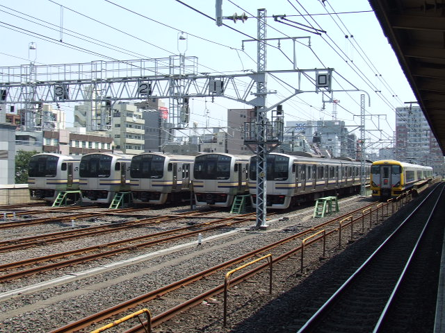 JR East E217 and E257-500 series EMUs stabled next to Kinshicho Station on the Sobu Rapid Line